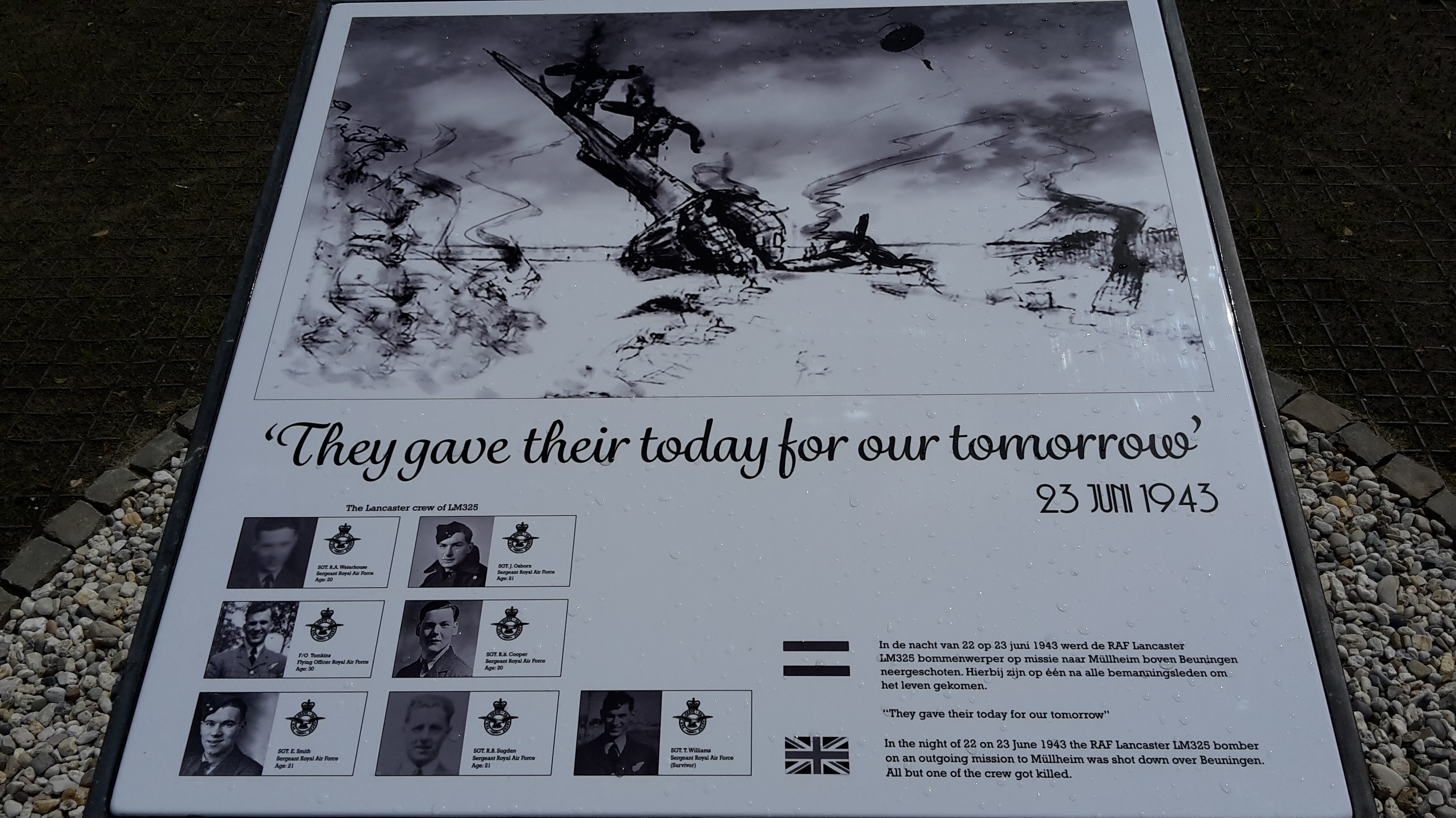 Memorial tablet remembering the crew of the British Lancaster bomber LM325 of 101 sqn RAF, that crashed in Beuningen, The Netherlands on June 23, 1943